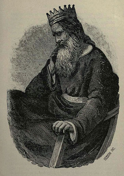 Ashot Yerkat, illustration in 1898y. book «Illustrated Armenia and Armenians»